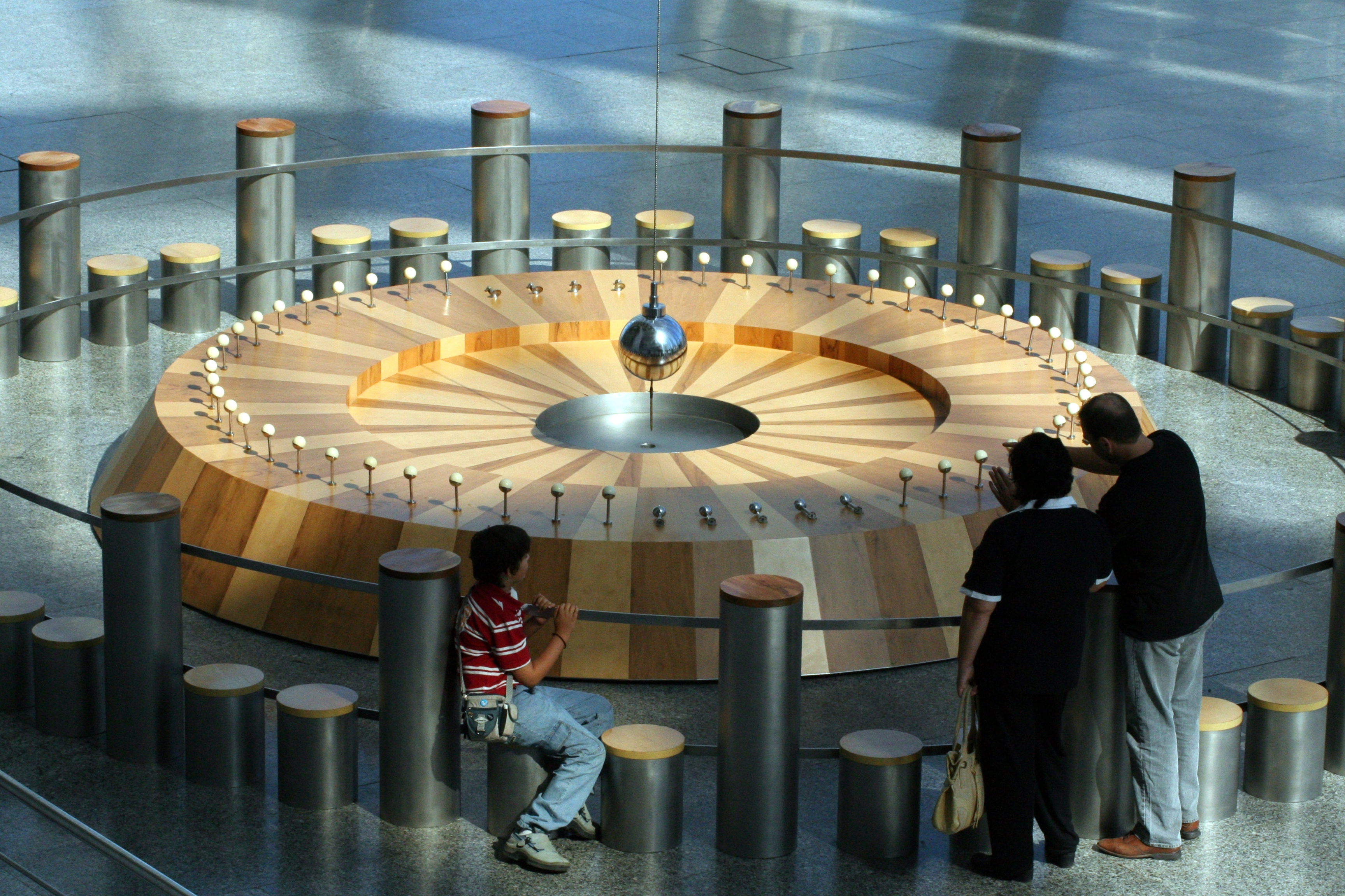 A Foucault pendulum at Museu de les Ciències Príncipe Felipe (science museum) in Valencia (Spain).